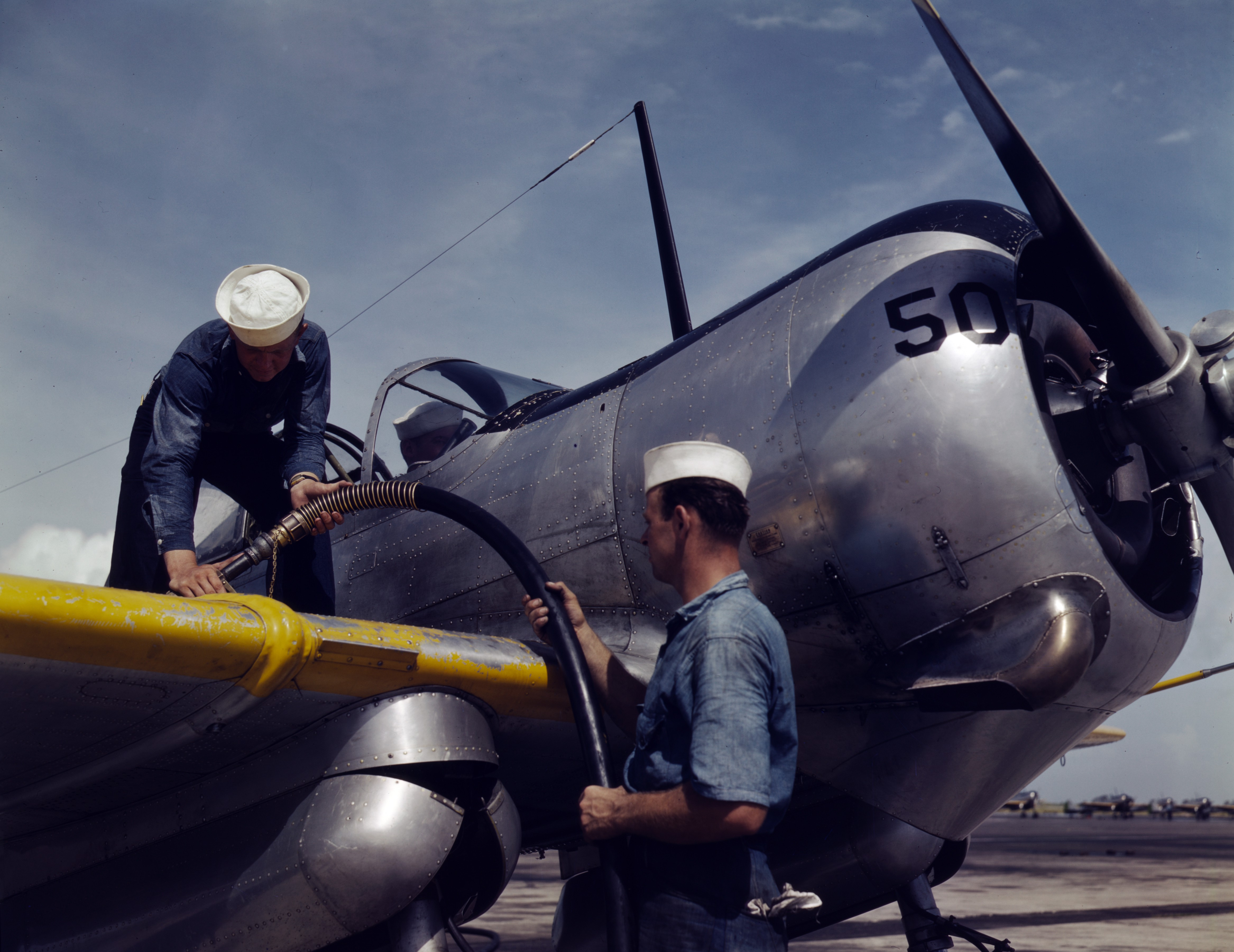 U.S. Navy sailors refuel a Curtiss SNC-1 Falcon training plane at the Naval Air Station Corpus Christi, Texas (USA), August 1942. Original caption: "Feeding an SNC advanced training plane its essential supply of gasoline is done by sailor mechanics at the Naval Air Base, Corpus Christi, Texas. Standing on the wing is Floyd Helphrey who came from Iowa to join the Navy early in the year. At right is W. Gardner of Illinois who used to be a crane operator, August 1942."